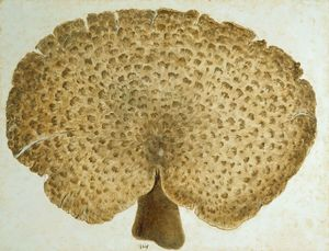 "Dryad's_saddle_seen_from_above" from Cassiano dal Pozzo's Museum chartaceum